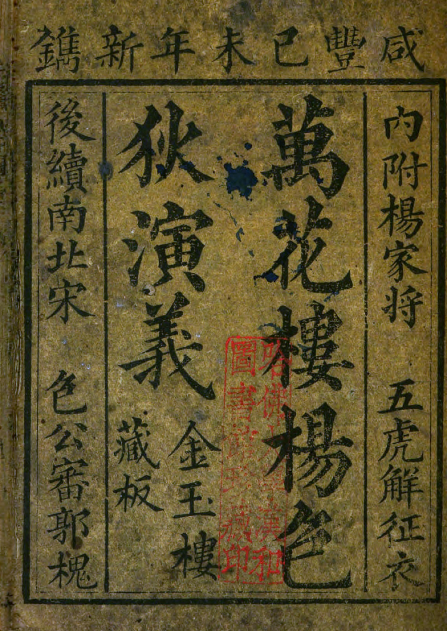 The front cover of Pavilion of Ten Thousand Flowers, a Chinese novel composed during the Qing Dynasty by Li Yutang.